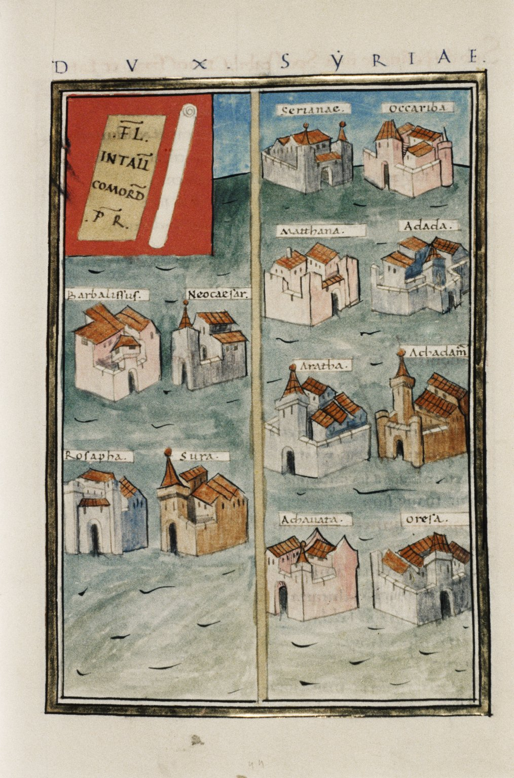 Dux Syriae from Notitia dignitatum